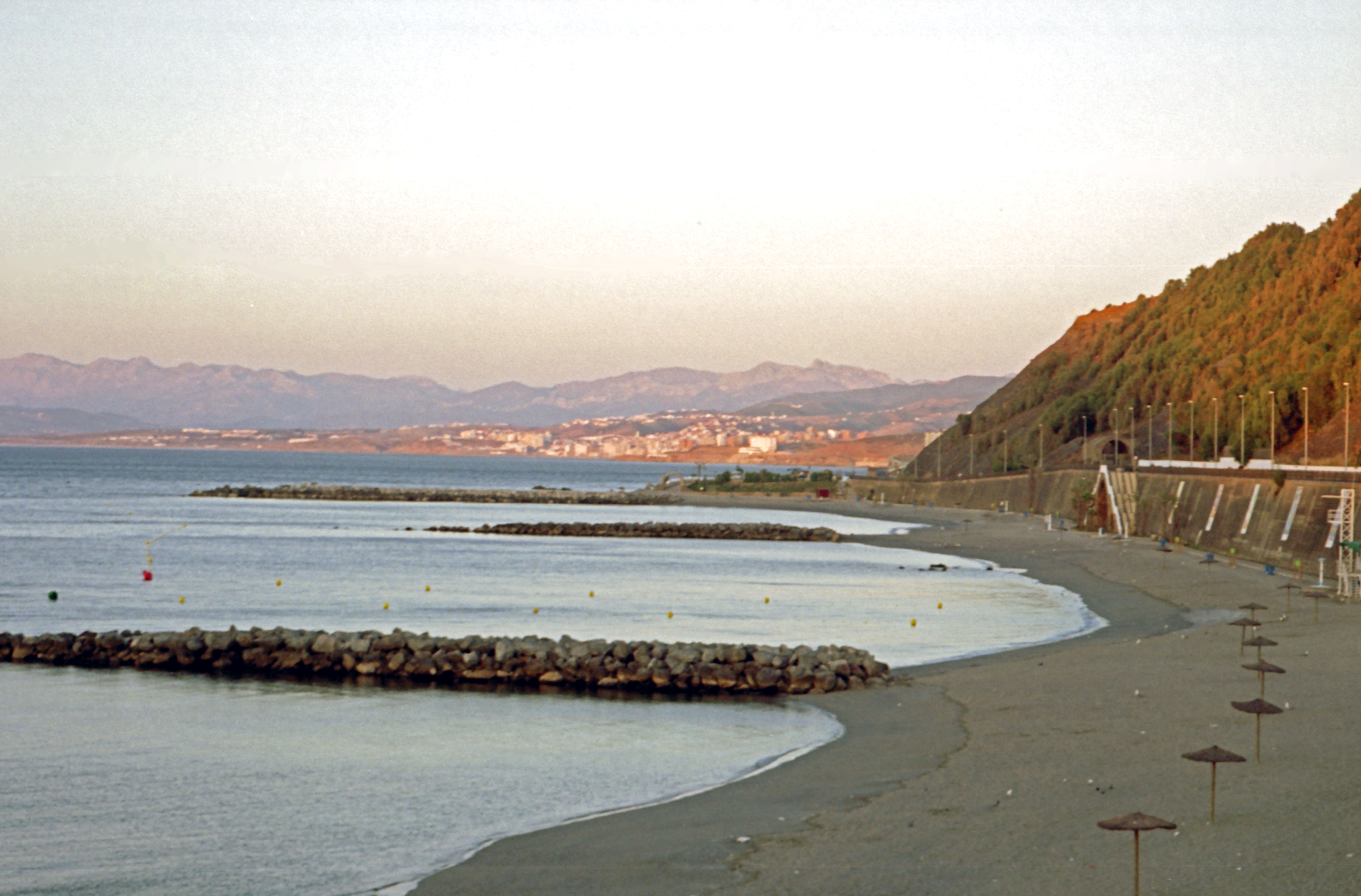 Spain3-19